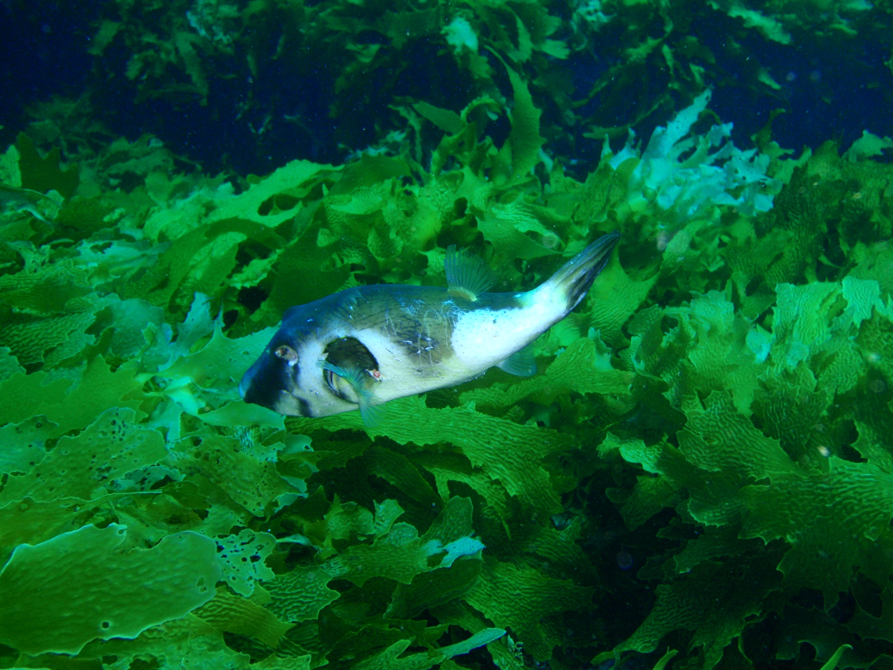 Ringed toadfish Omegophora armilla at Seal cove, Breaksea Island, in King George Sound, Western Australia